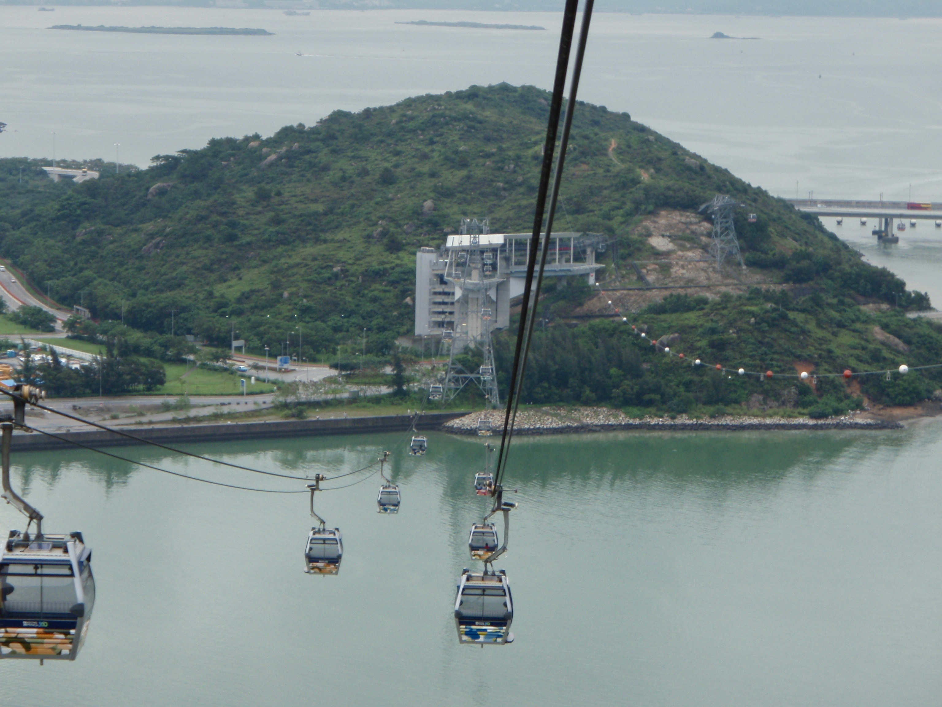 Travelling on the Gondola from Ngong Ping (Lantau Island) to Tung Chung after passing last tower.